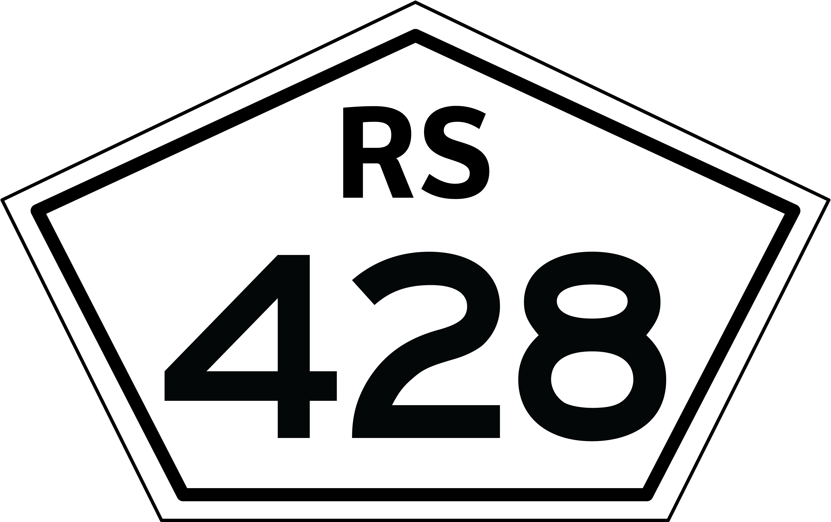 RS-428 State road in Rio Grande do Sul, Brazil. Rua estadual no Rio Grande do Sul, Brasil.